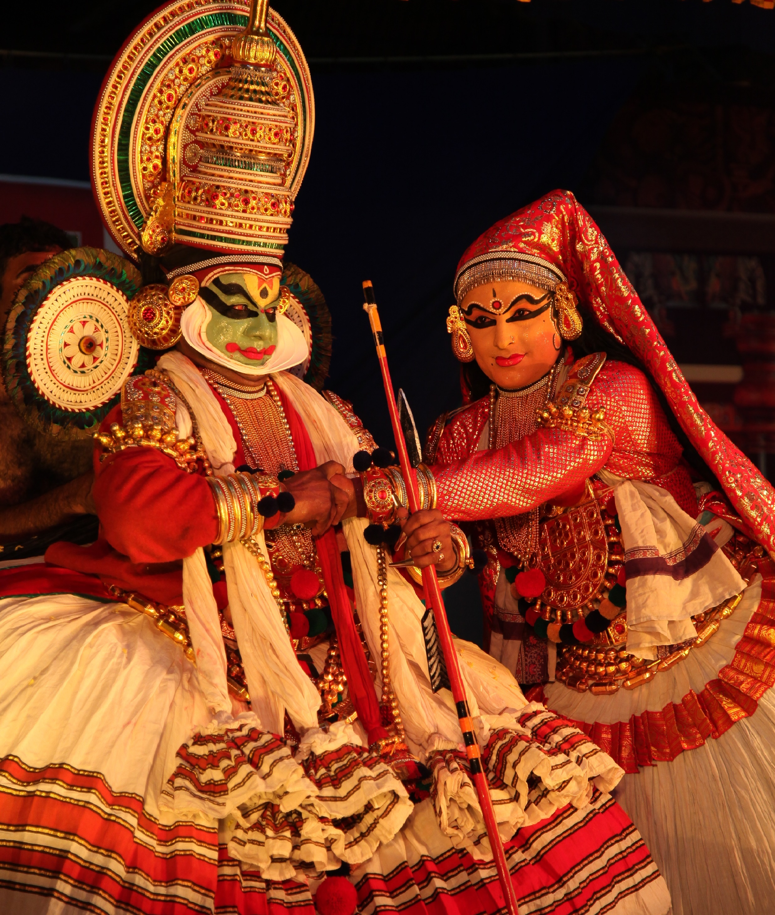 One distinguished by the elaborately colourful make-up, costumes and face masks that the traditionally male actor-dancers wear